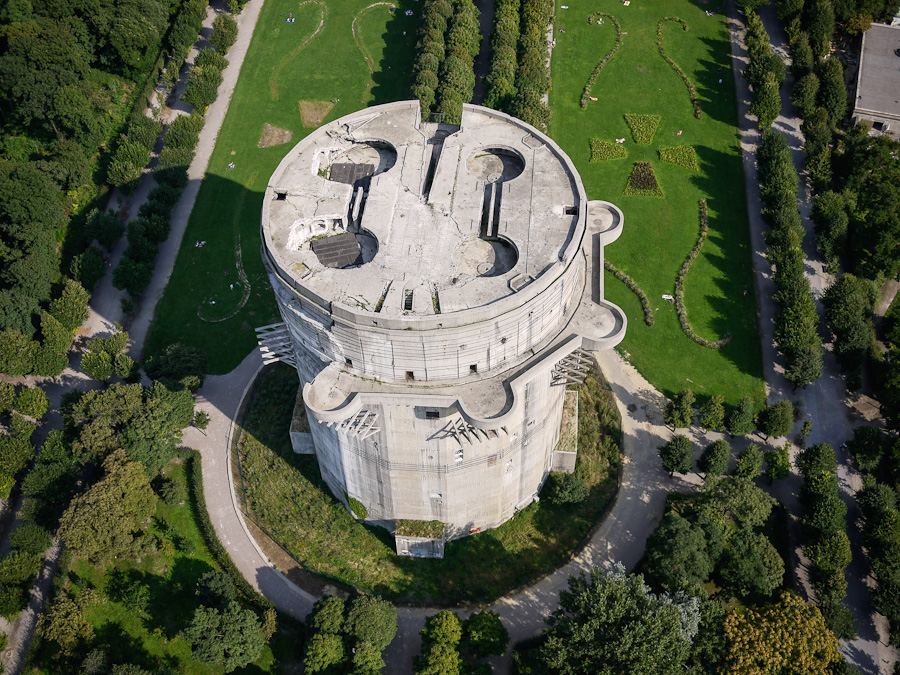 The severly damaged flak tower Augarten in Vienna - Aerial Photography